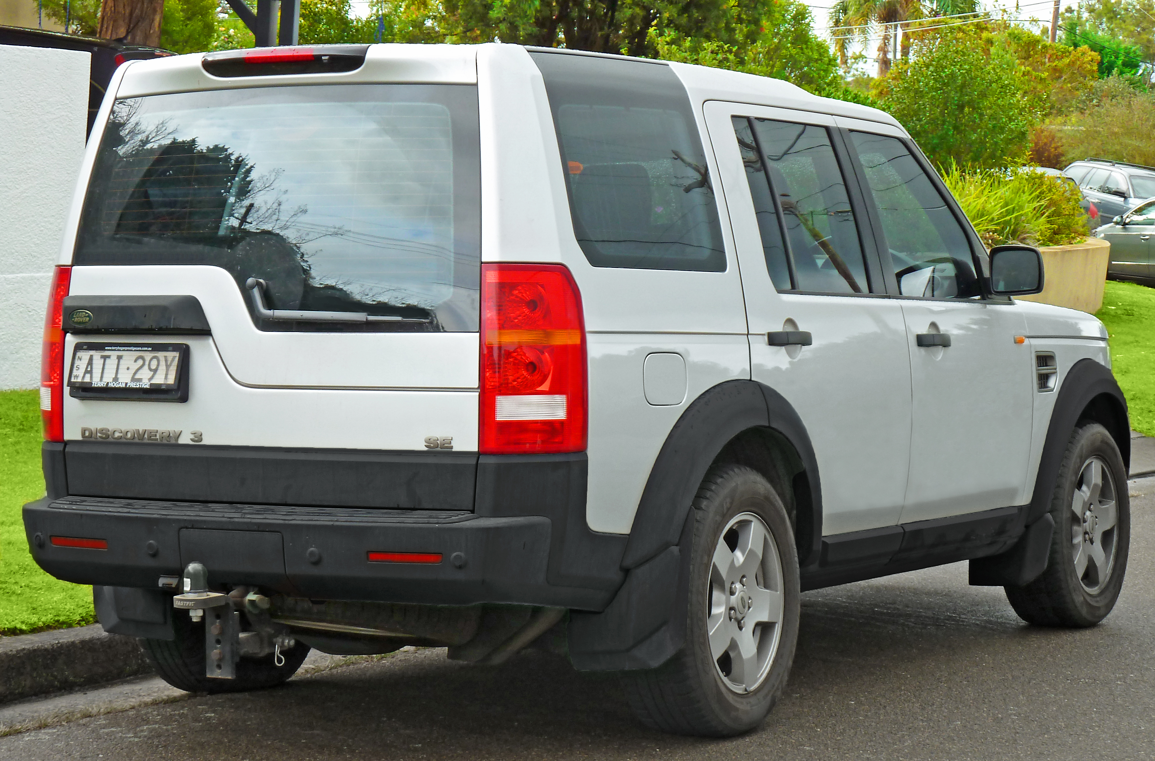 2005–2007 Land Rover Discovery 3 SE wagon. Photographed in Castle Cove, New South Wales, Australia.